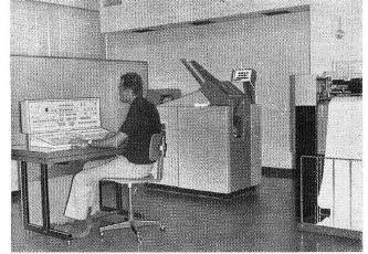 This photos was published in my book:Racunari TIM,p.165,NK,Belgrade 1990. Also, a photos exists in Inst.M.Pupin Archive;see for the consent from IMP Marketing Dept.( e.g. ).Author:Dusan Hristovic; I releases it into the public domain or CCSA 3.0 license